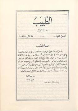 First edition